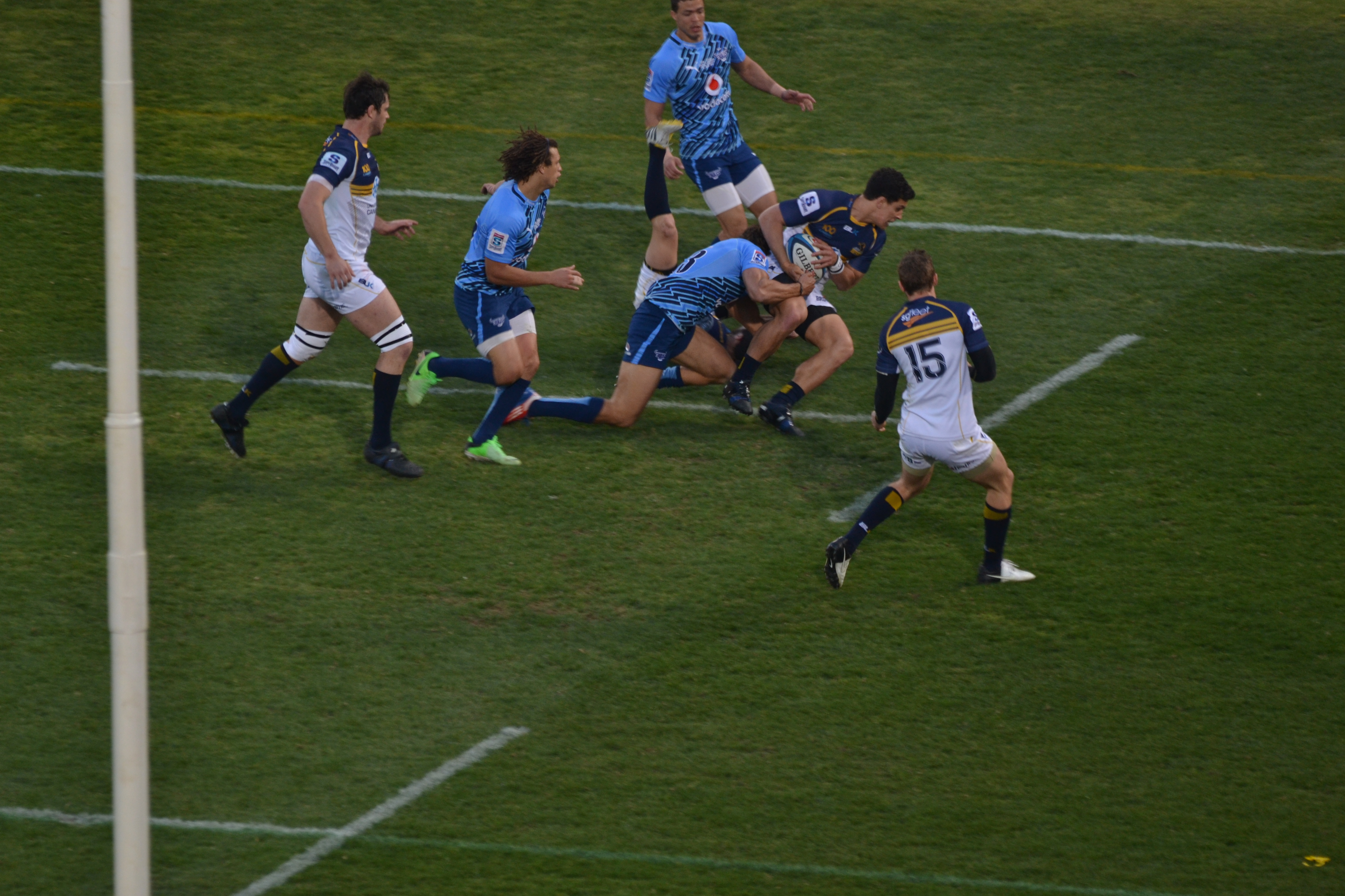 The Vodacom Bulls team to face the Brumbies 27 July 2013